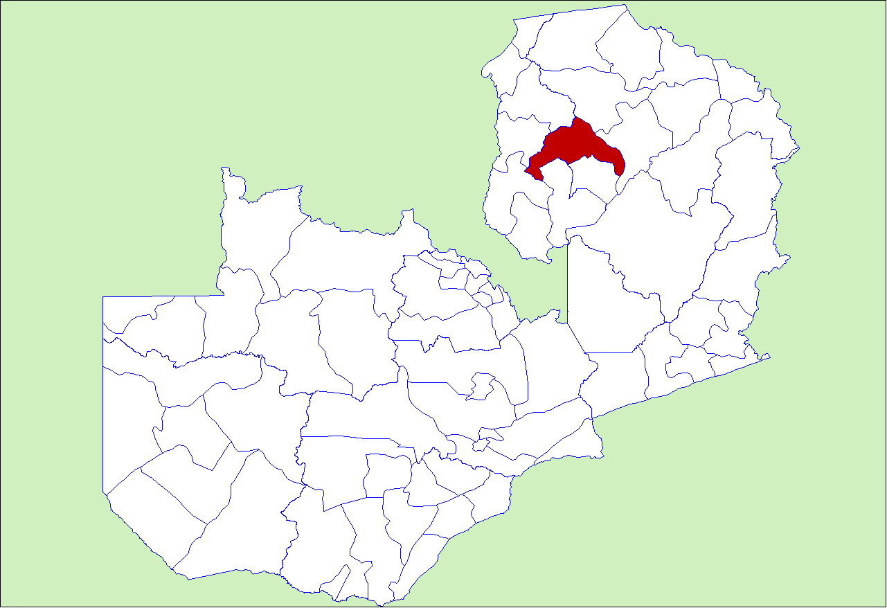 District locator in Zambia